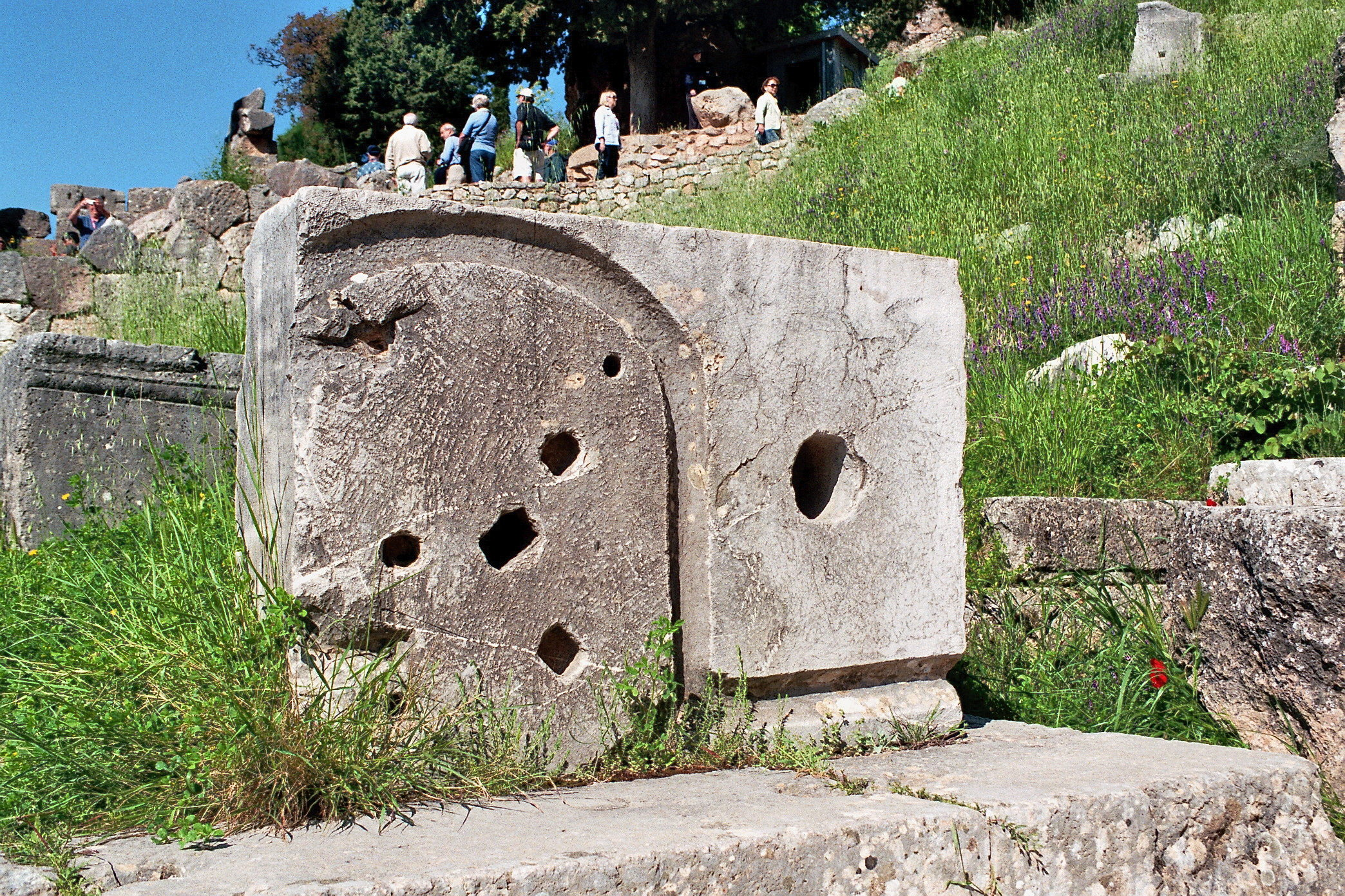 "Stone of Pythia" in the archaeological site in Delphi, Greece